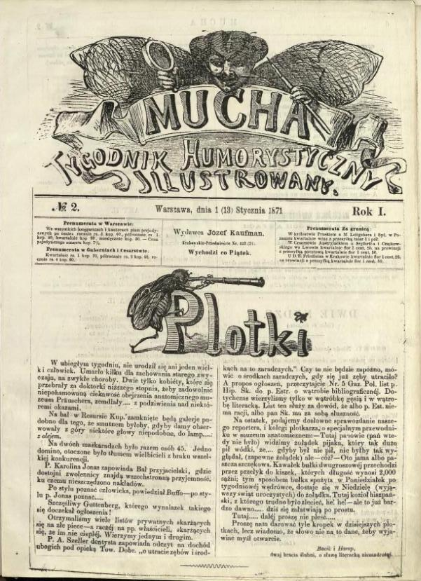 The front page of polish satirical magazine Mucha. no. 2 - 1871.